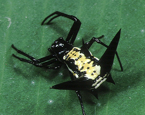 Micrathena raimondi from Ecuador.